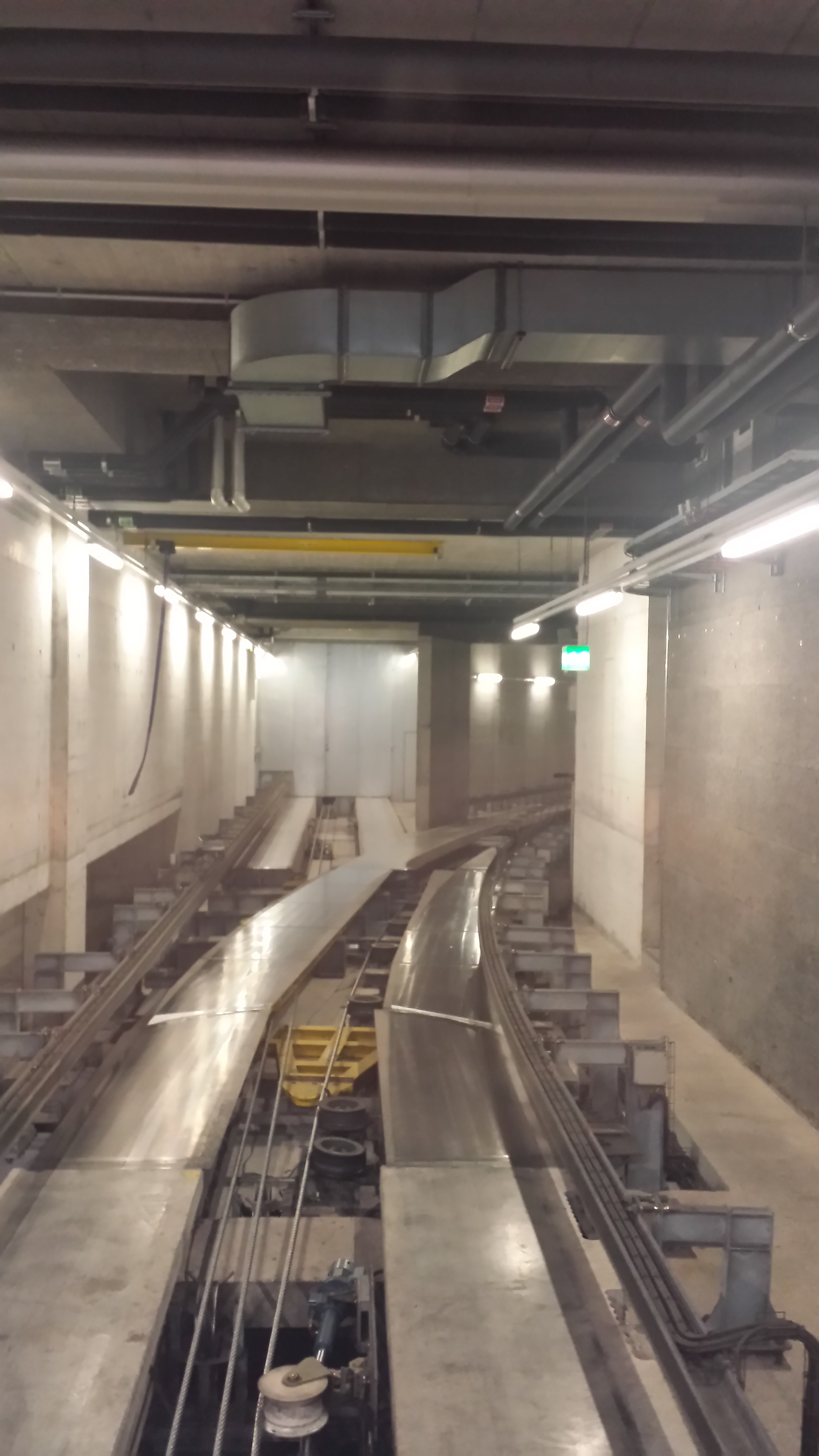 View looking forward from an arriving Skymetro train at the station under Zurich Airport Terminal E